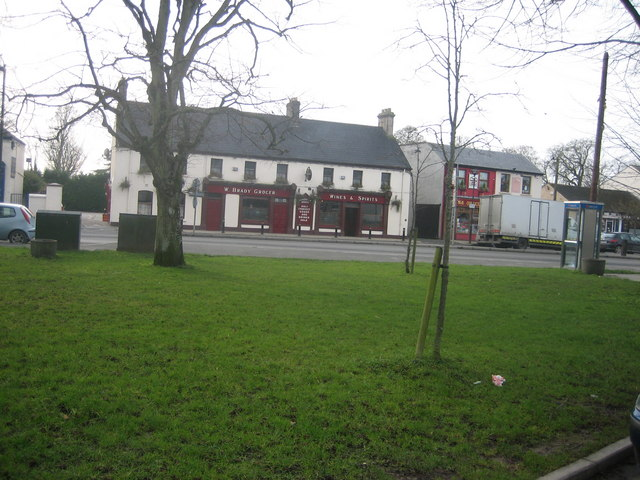 A Traditional Shop, Dunboyne Typical of many small villages a combined grocery shop and public house.